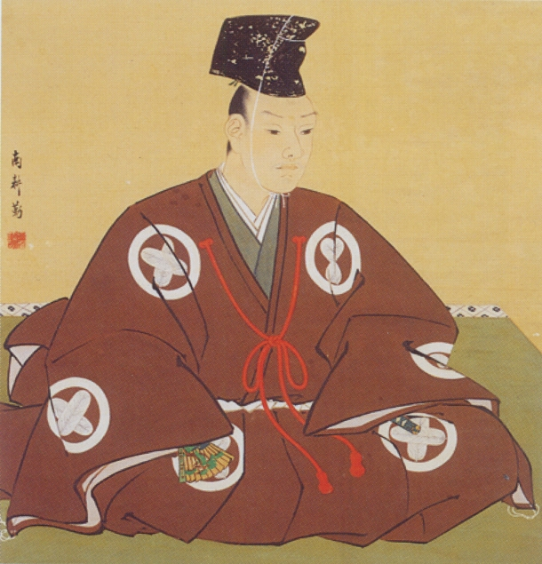 浅野長矩、江戸時代元禄期の大名。江戸城松の廊下において刀傷事件を起こし、切腹。後に家臣達が起こした忠臣蔵事件で知られている人物。 Asano Naganori (September 28, 1667–April 21,1701) was the daimyo of the Ako han in Japan (1675-1701).